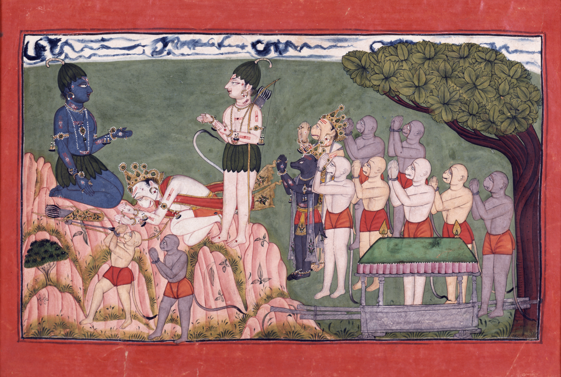 In this illustration from the "Ramayana," Rama, colored blue, faces the prostrate form of the monkey Sugriva. Rama has established an alliance with Sugriva, who bids him farewell before departing for his kingdom. The standing white-skinned figure is Rama's brother Lakshmana.